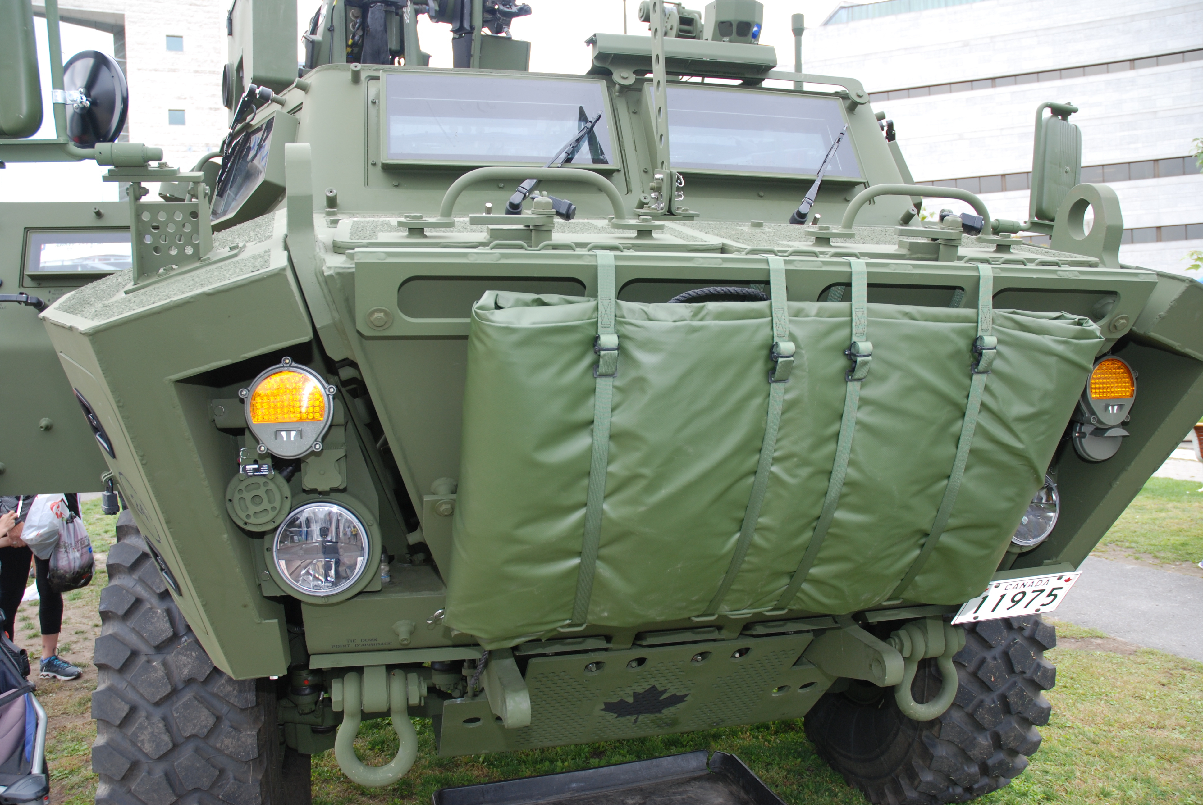 Textron Tactical Armoured Patrol Vehicle at Ottawa City Hall, Front View